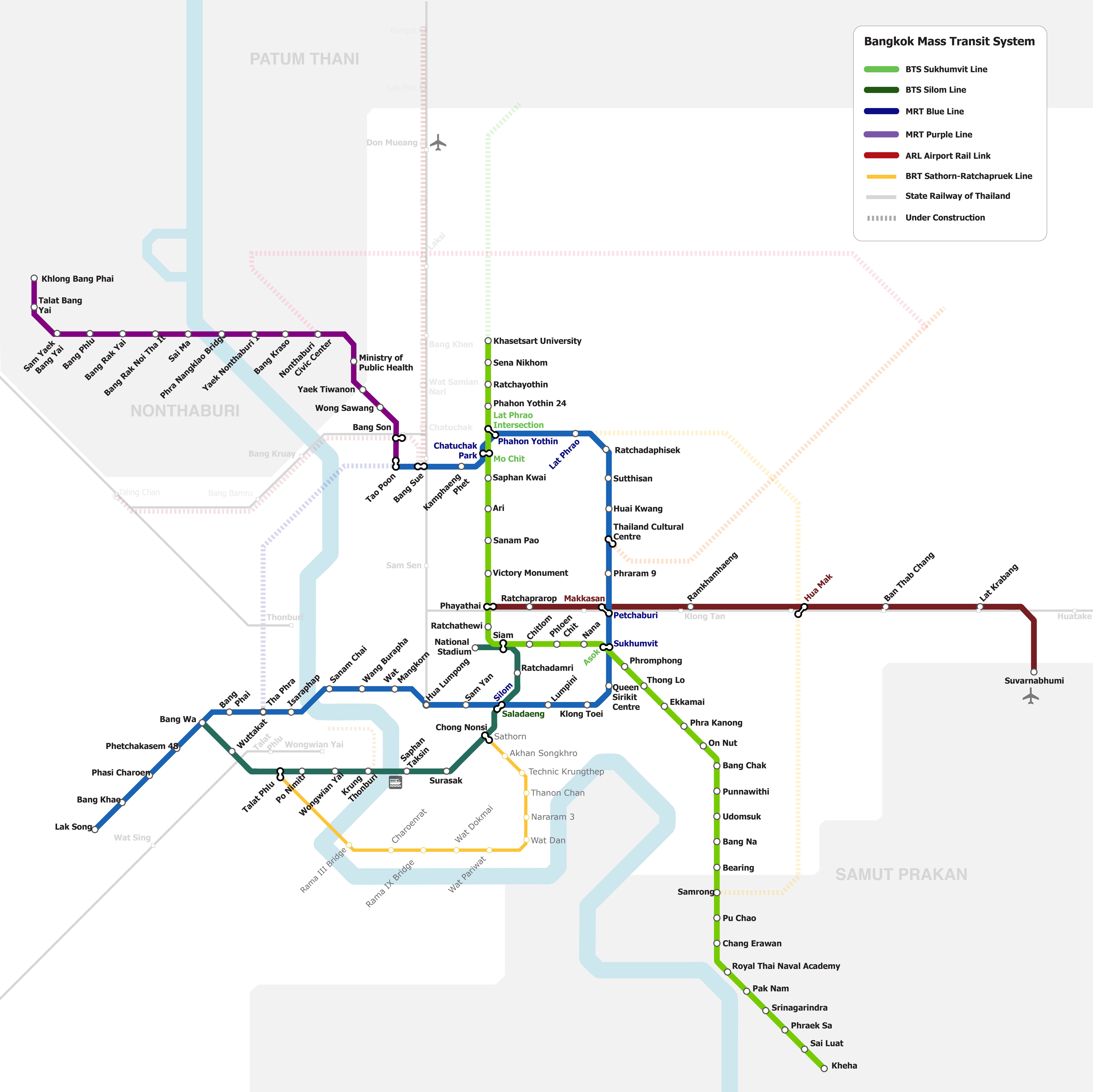 Bangkok mass transit map of 2020